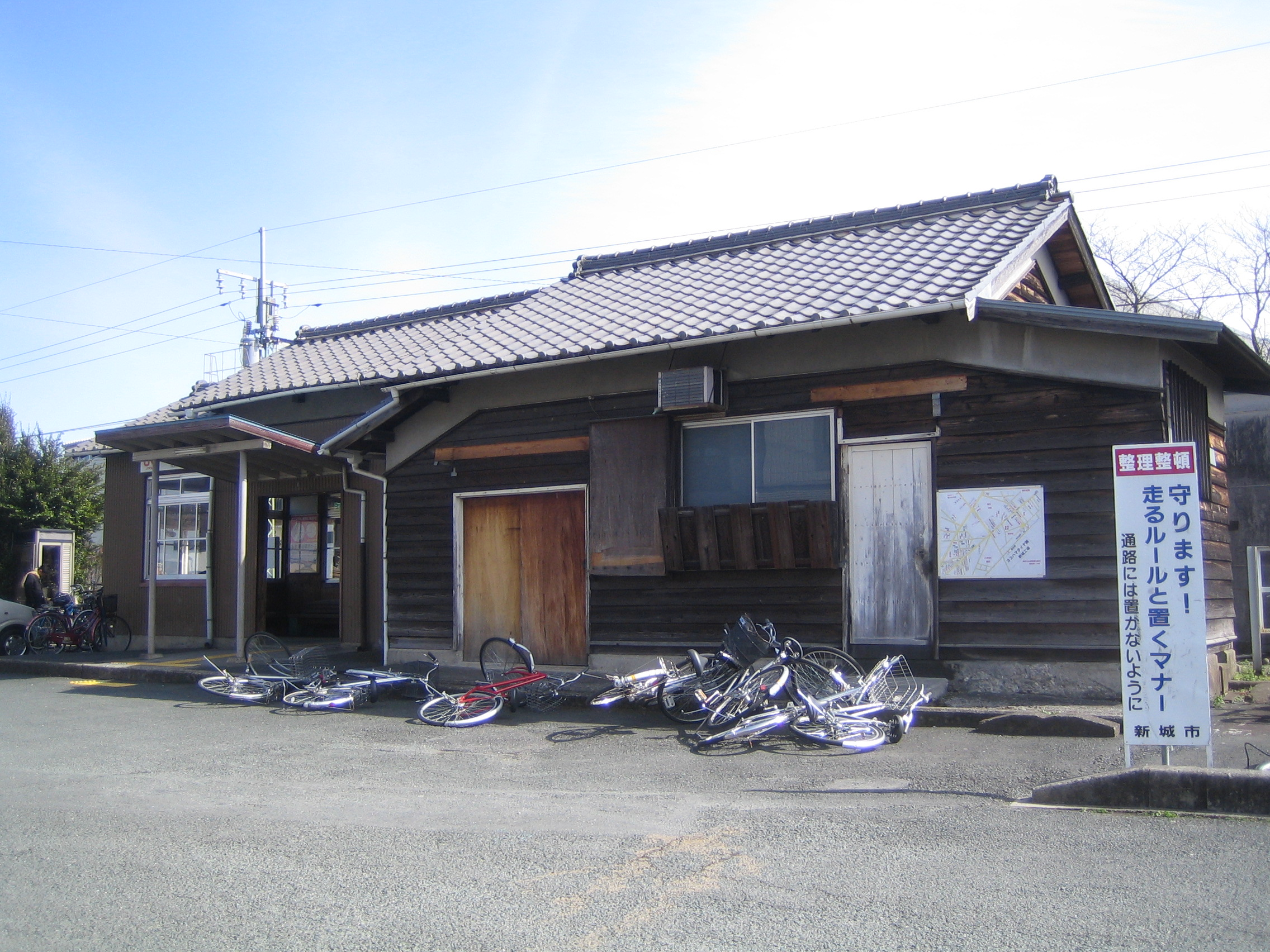 野田城駅。愛知県新城市 Nodajo Station (野田城駅 Nodajō Eki), located in Shinshiro, Aichi, Japan